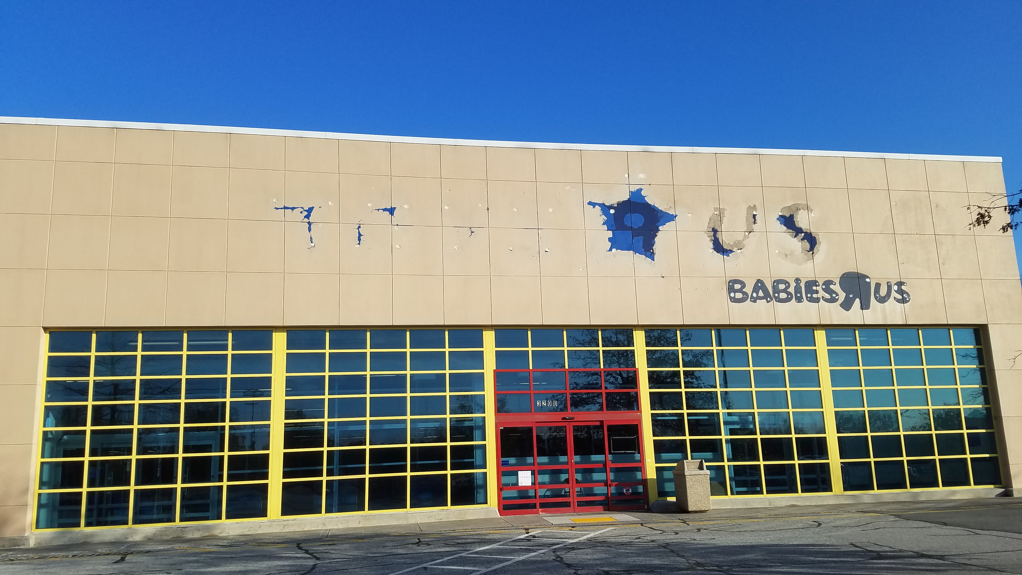 A Toys R Us in Winston-Salem that has had it's sign torn down after the company's bankruptcy and closure of its stores.